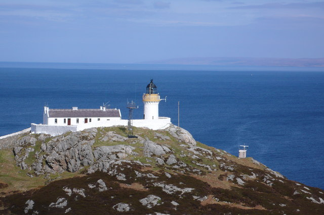 Lighthouse on Rona A lovely day with amazing views in all directions. Was surprised to see that the track marked on the map was actually a tarmac road leading to all the buildings